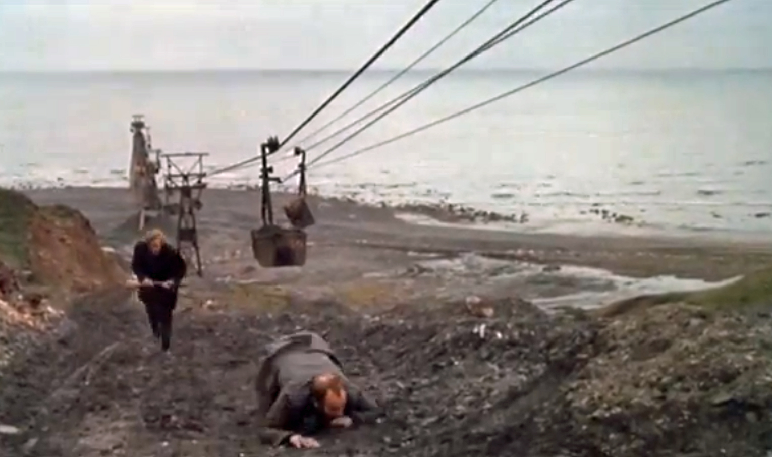 Screenshot from trailer for "Get Carter" (1971)